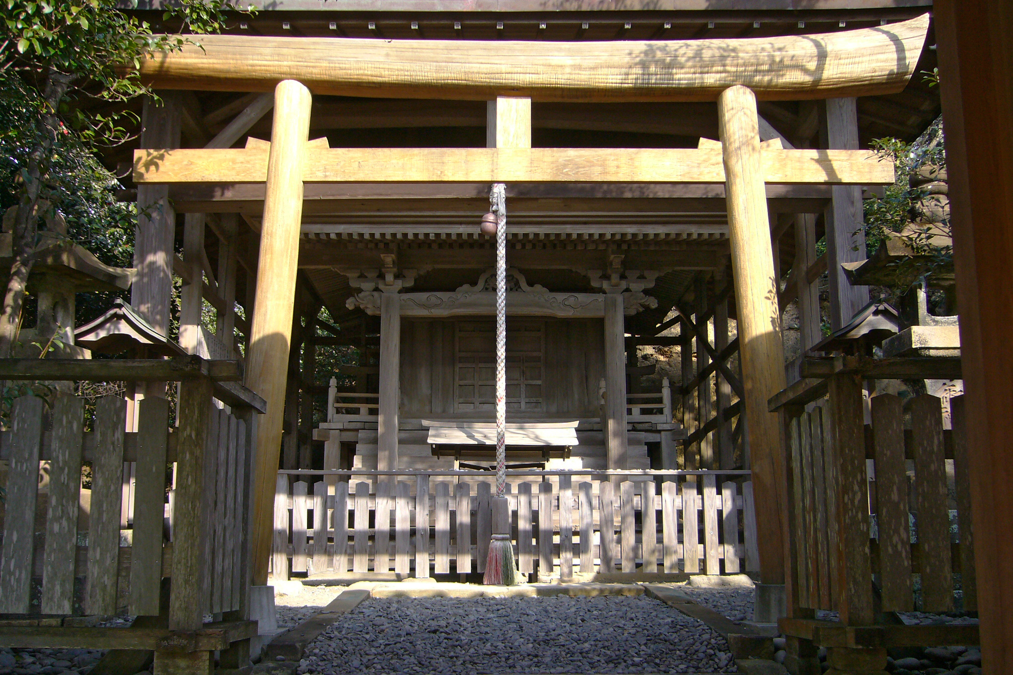 Senri Oji, Minabe, Wakayama prefecture, Japan